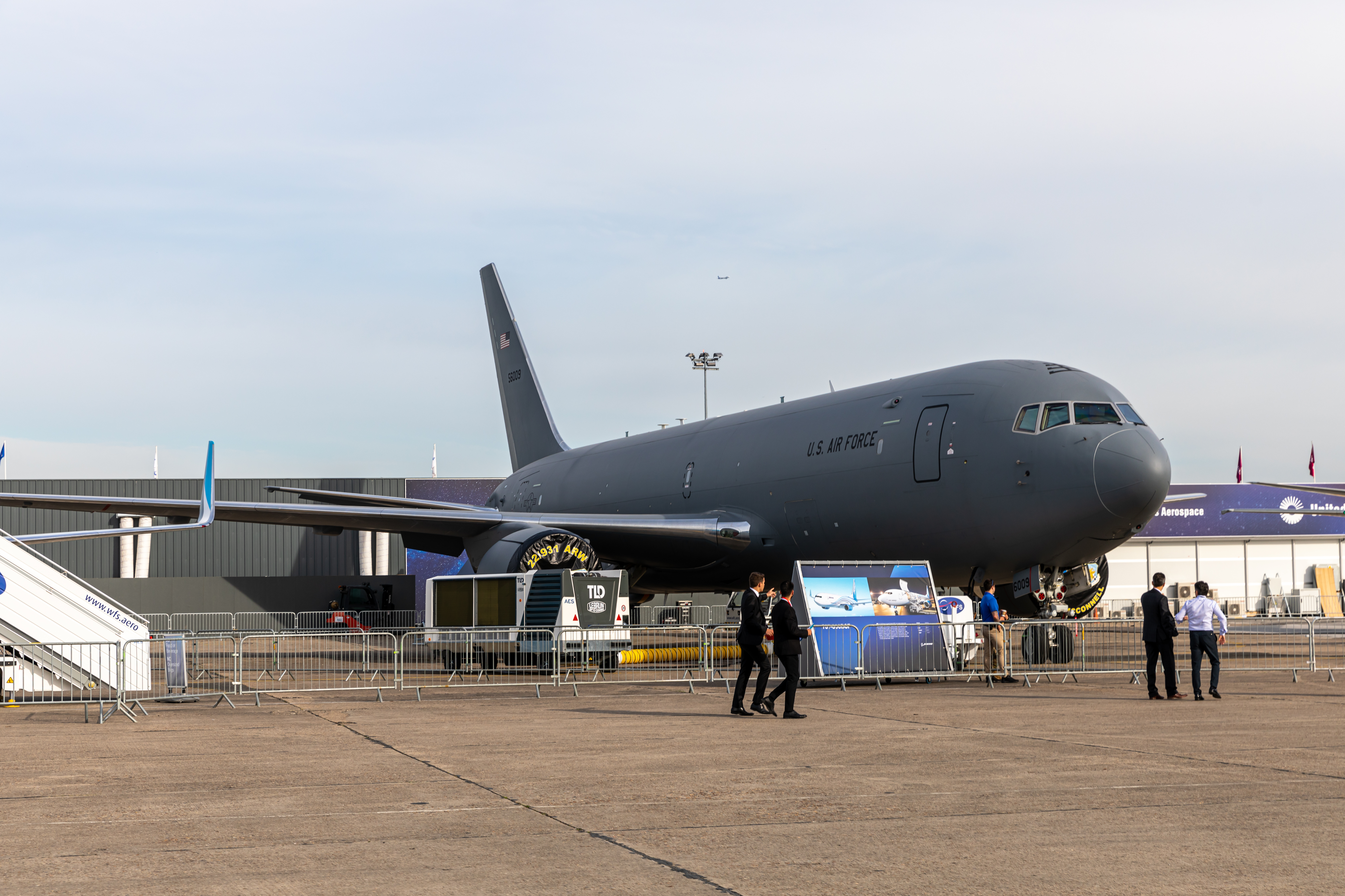 Boeing KC-46A at Paris Air Show 2019